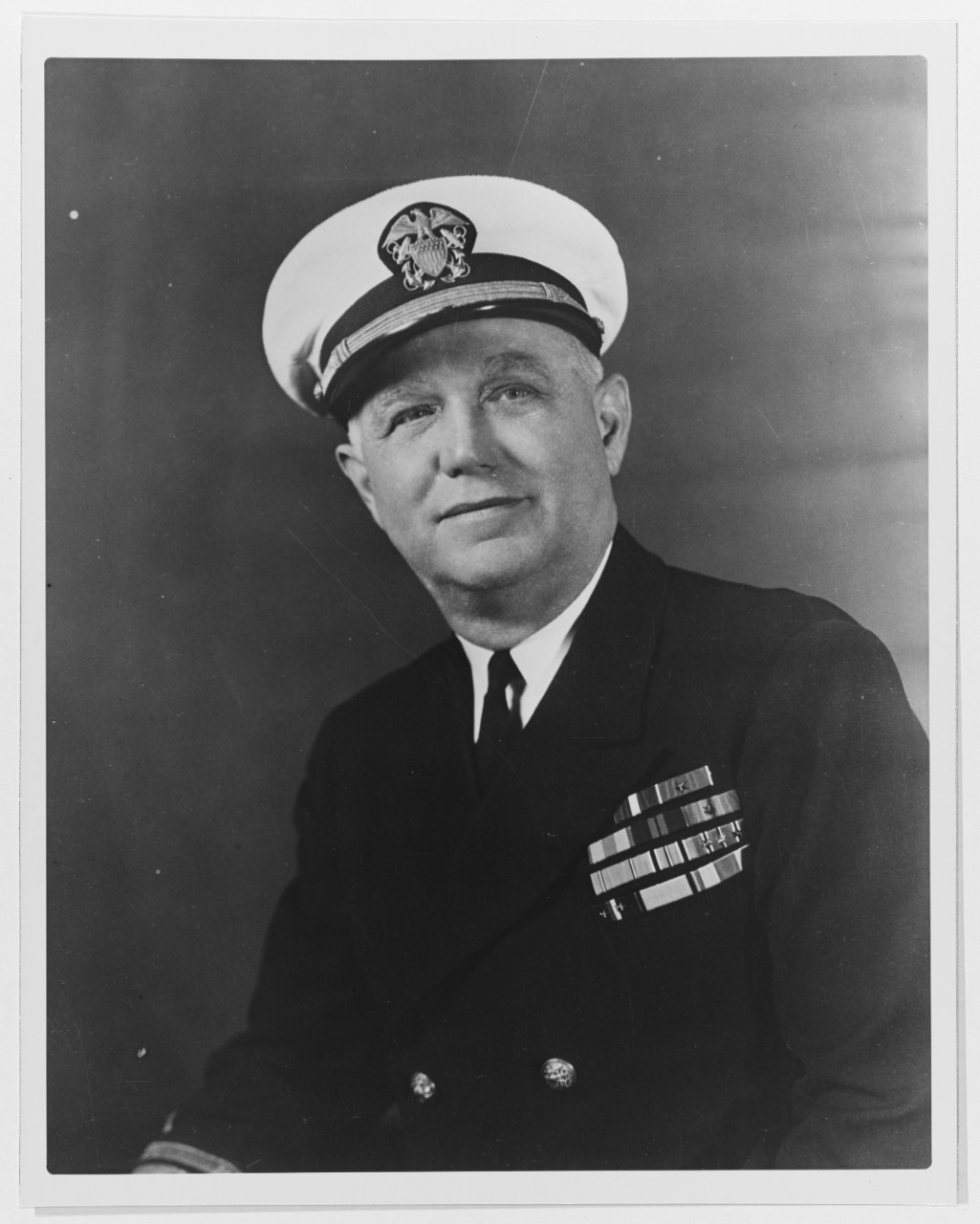 then-Rear Admiral Glenn B. Davis, U.S. Navy